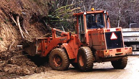 Landslides triggered by Pacific Northwest storms, November and December 1998; a John Deere 554 E wheeled loader clearing deposits from shallow earth slide above Nestucca River, Oregon, USA